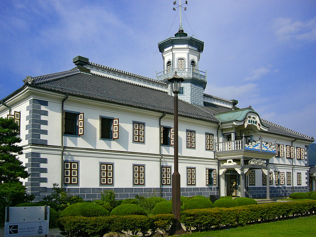 Former Kaichi School in Matsumoto, Nagano prefecture, Japan